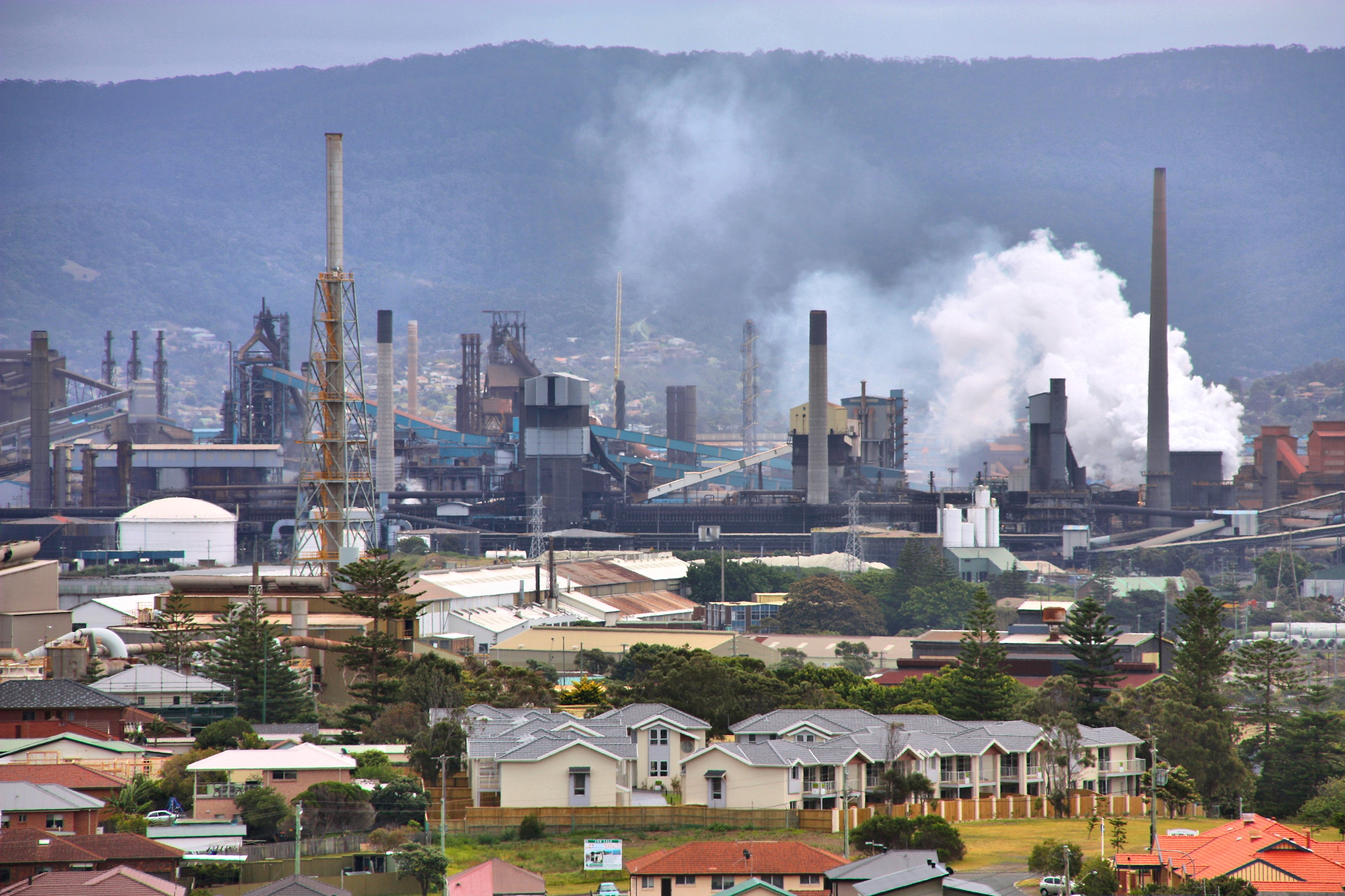 Steelworks of BlueScope Steel Limited company in Port Kembla, Australia.